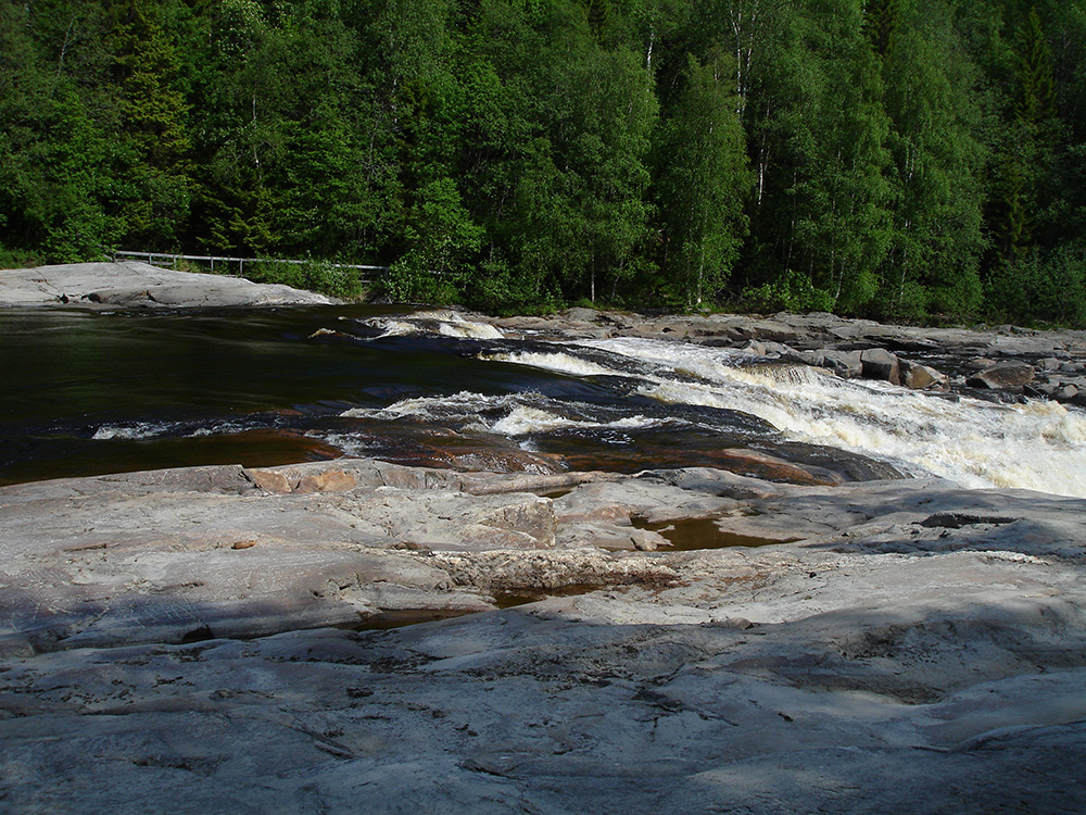 Rapids Laxforsen in River Öreälven at Torrböle, Nordmaling Municipality, Sweden. On the rocks by the river there are petroglyphs consisting of eleven pictures.